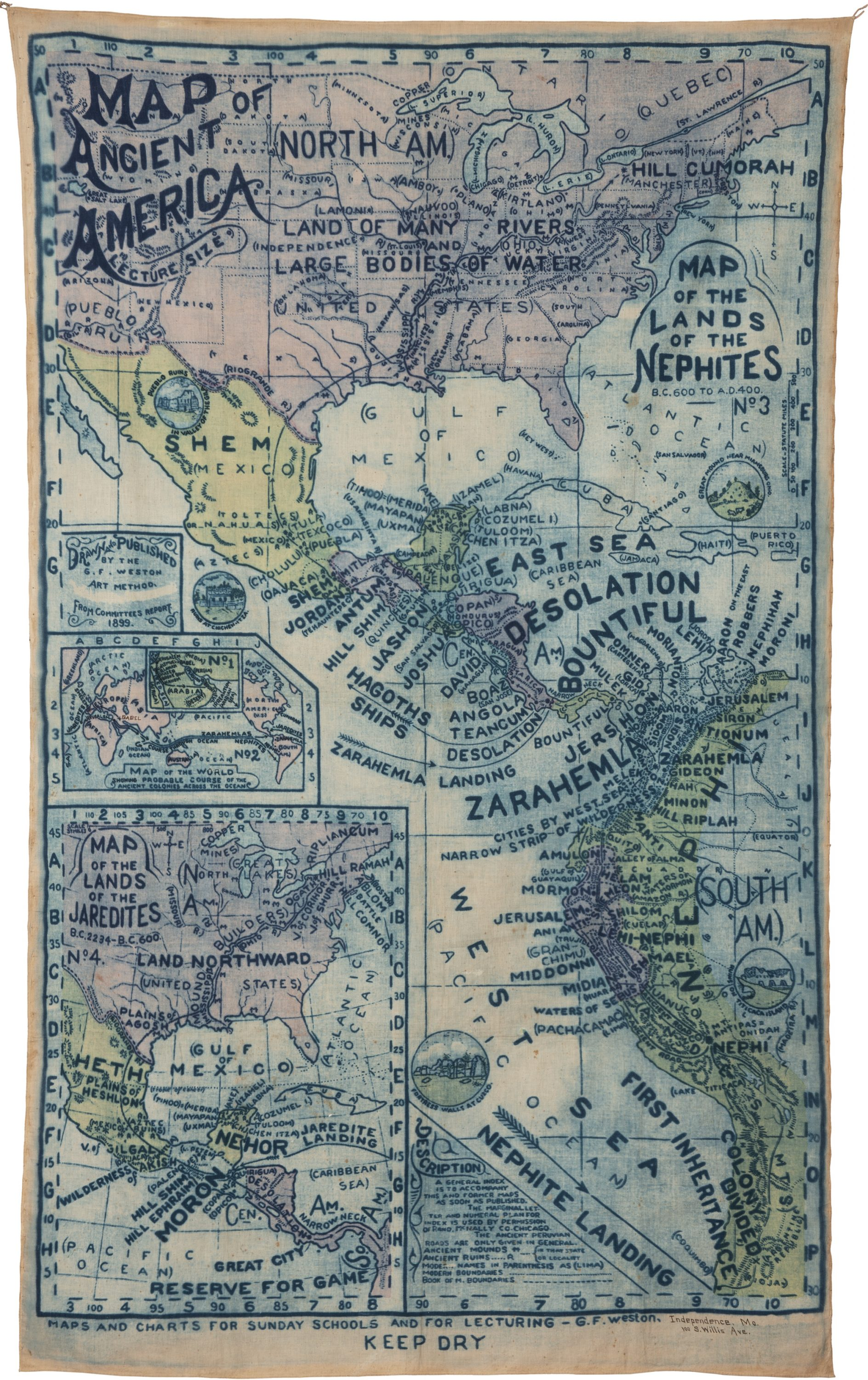 G[eorge] F. Weston, MAP OF ANCIENT AMERICA [:] LECTURE SIZE]. Independence, Missouri: [Herald Publishing House?], 1899. Courtesy of Boston Rare Maps